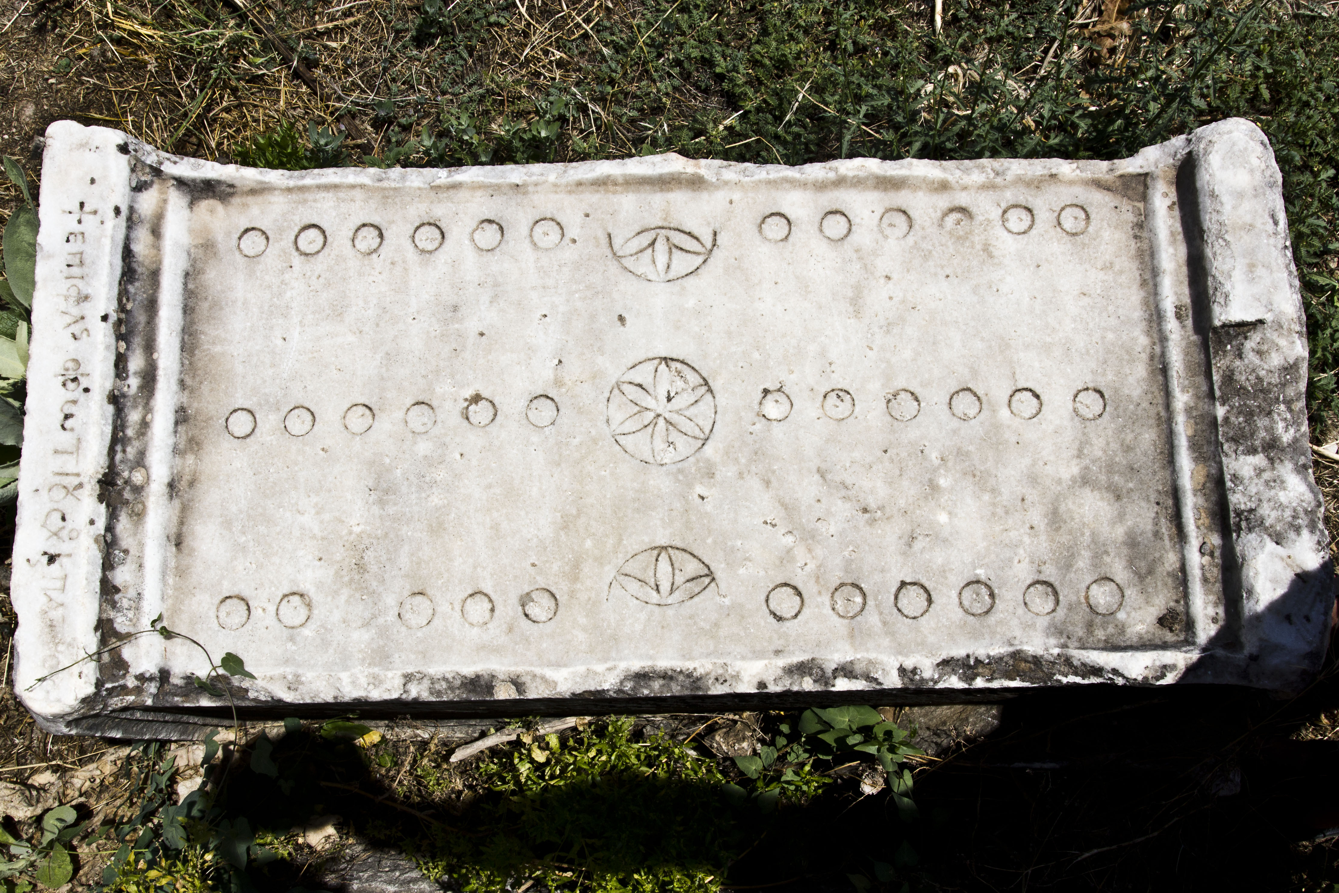 Backgammon is said to be the oldest game in history. The ancient Romans played a game, Ludus Duodecim Scriptorum ("Twelve-lined Game"), which was identical, or nearly so, to modern backgammon. This early game board was found near the agora (the market) in Aphrodisias and dates from the second century CE.